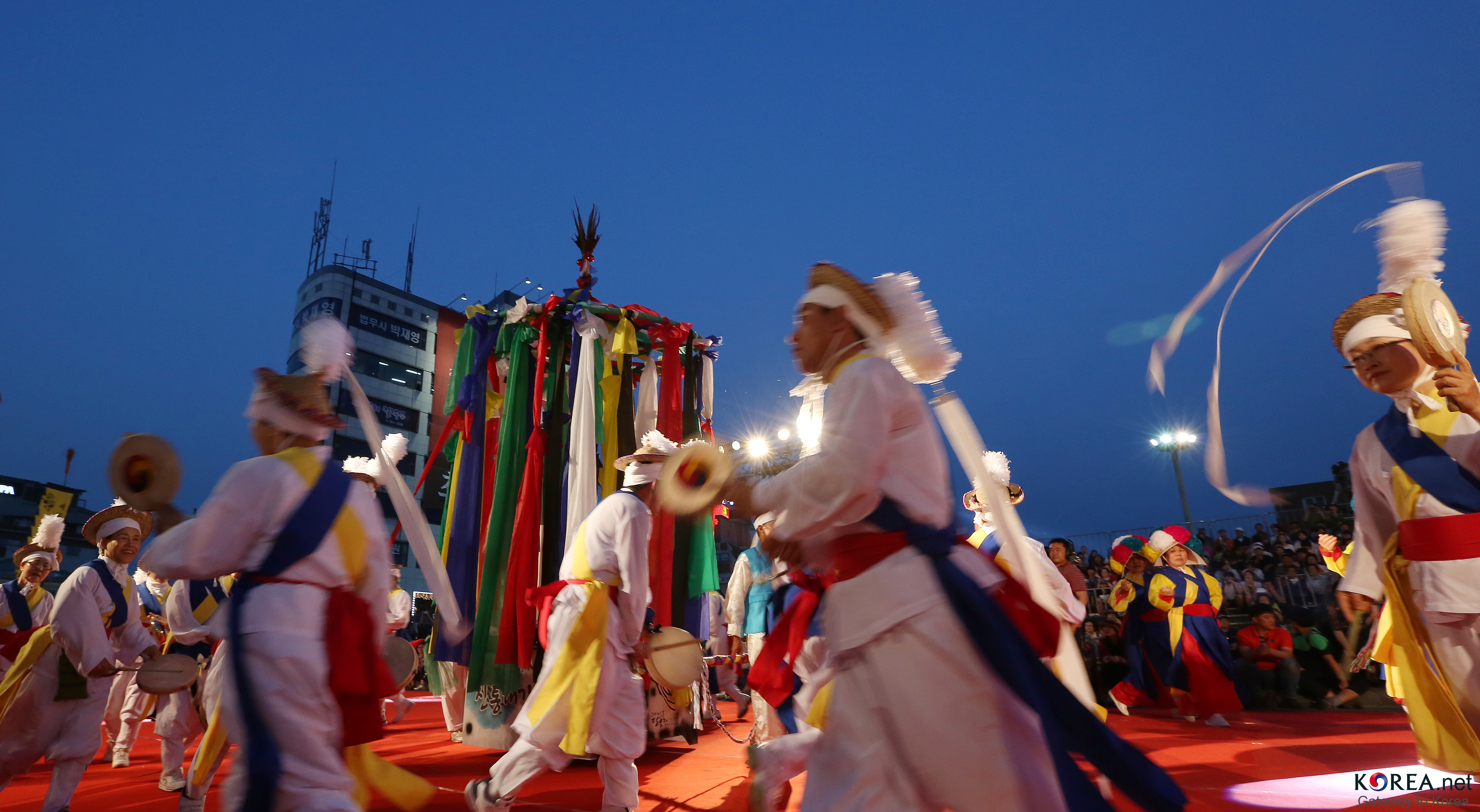 Exploring The UNESCO World Heritage in Korea 1st Program – ‘The Healing Festival Lasting 1,000 years’ Gangneung Danoje Festival & Jangneung(One of Royal Tombs of Joseon Dynasty) Gangneung Danoje Festival May 31, 2014 Gangneung-si, Gangwon-do Ministry of Culture, Sports and Tourism Korean Culture and Information Service ( Official Photographer: Jeon Han This official Republic of Korea photograph is licensed as free content, so while restrictions such as personality or privacy rights may apply, in general, manipulations are allowed. If you want a photograph without a watermark, you may ask via Flickr e-mail. 유네스코 세계문화유산 등재 유•무형 한국문화유산 심층탐방 첫 번째 프로그램 - ‘천년을 이어온 힐링 축제’ 강릉단오제와 장릉 강릉단오제 2014-05-31 강원도 강릉시 문화체육관광부 해외문화홍보원 코리아넷 전한